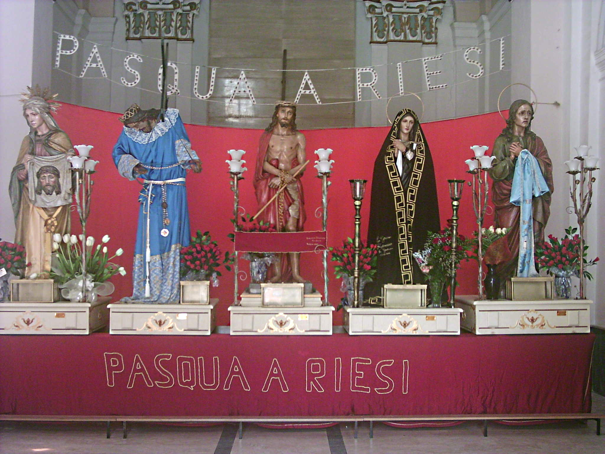 Easter in Riesi (CL)